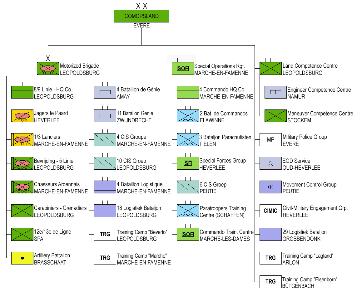 Structure of the Belgian Land Component after the 22nd November 2018 reform